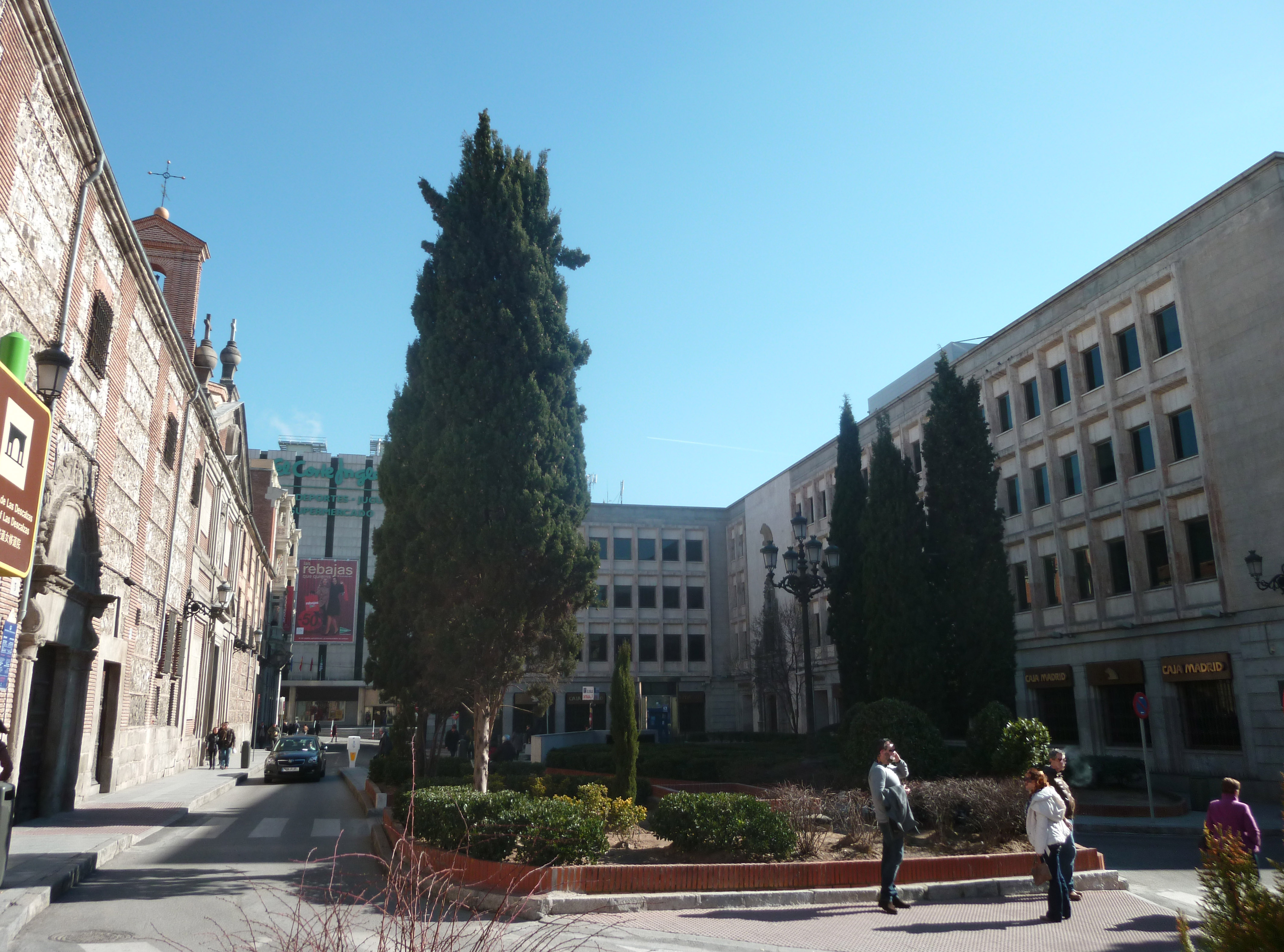 View of Plaza de las Descalzas (square) in Centro district in Madrid (Spain).